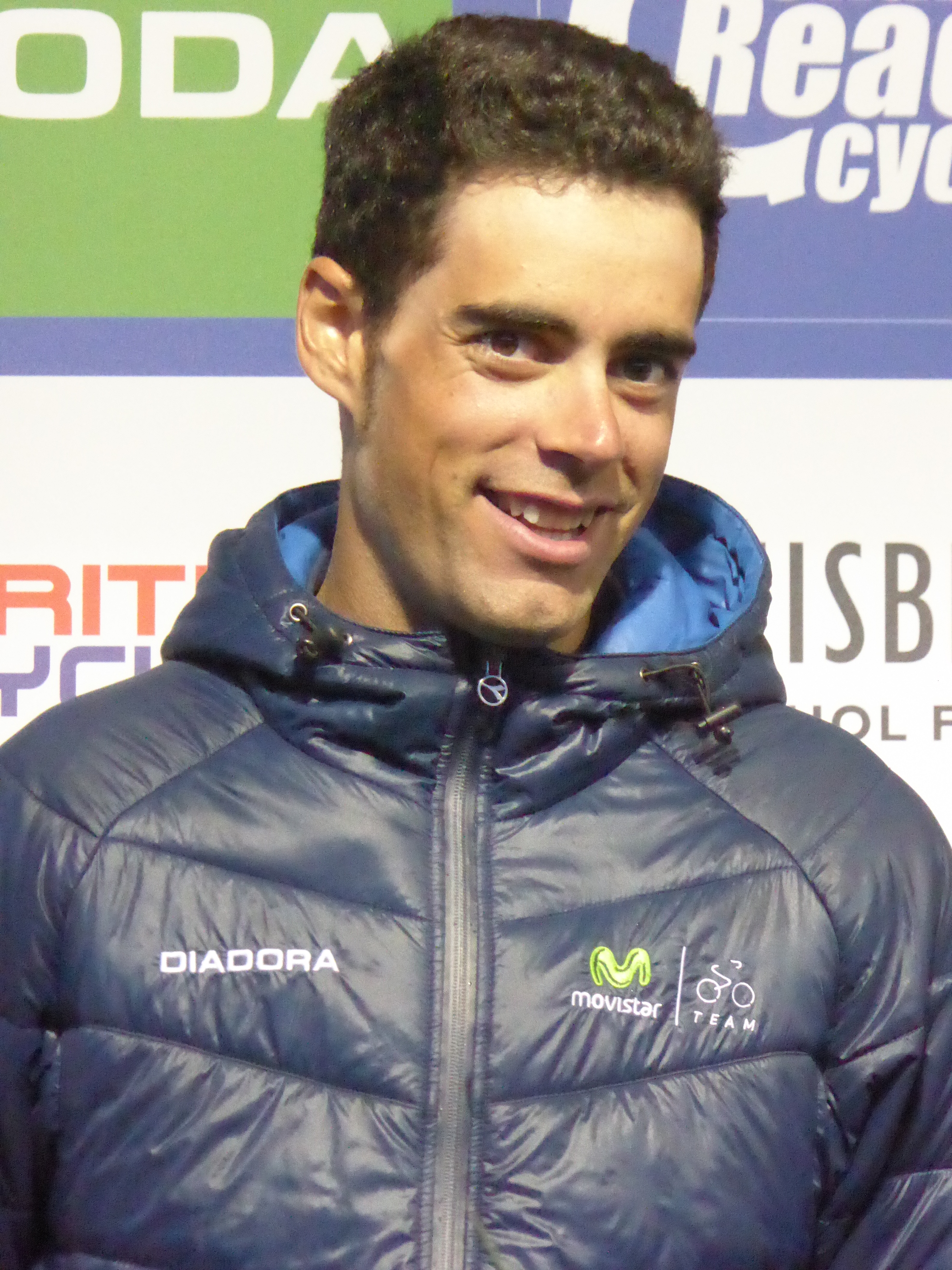 Jorge Arcas (Movistar Team), pictured at the 2016 Tour of Britain team presentation in Glasgow on 3 September 2016.